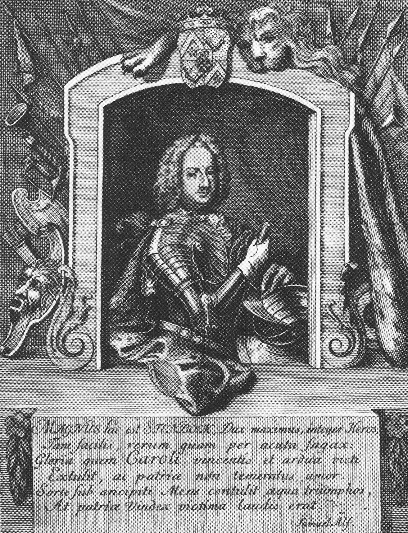 Magnus Stenbock (1665-1717). Etching by C. Bergquist.